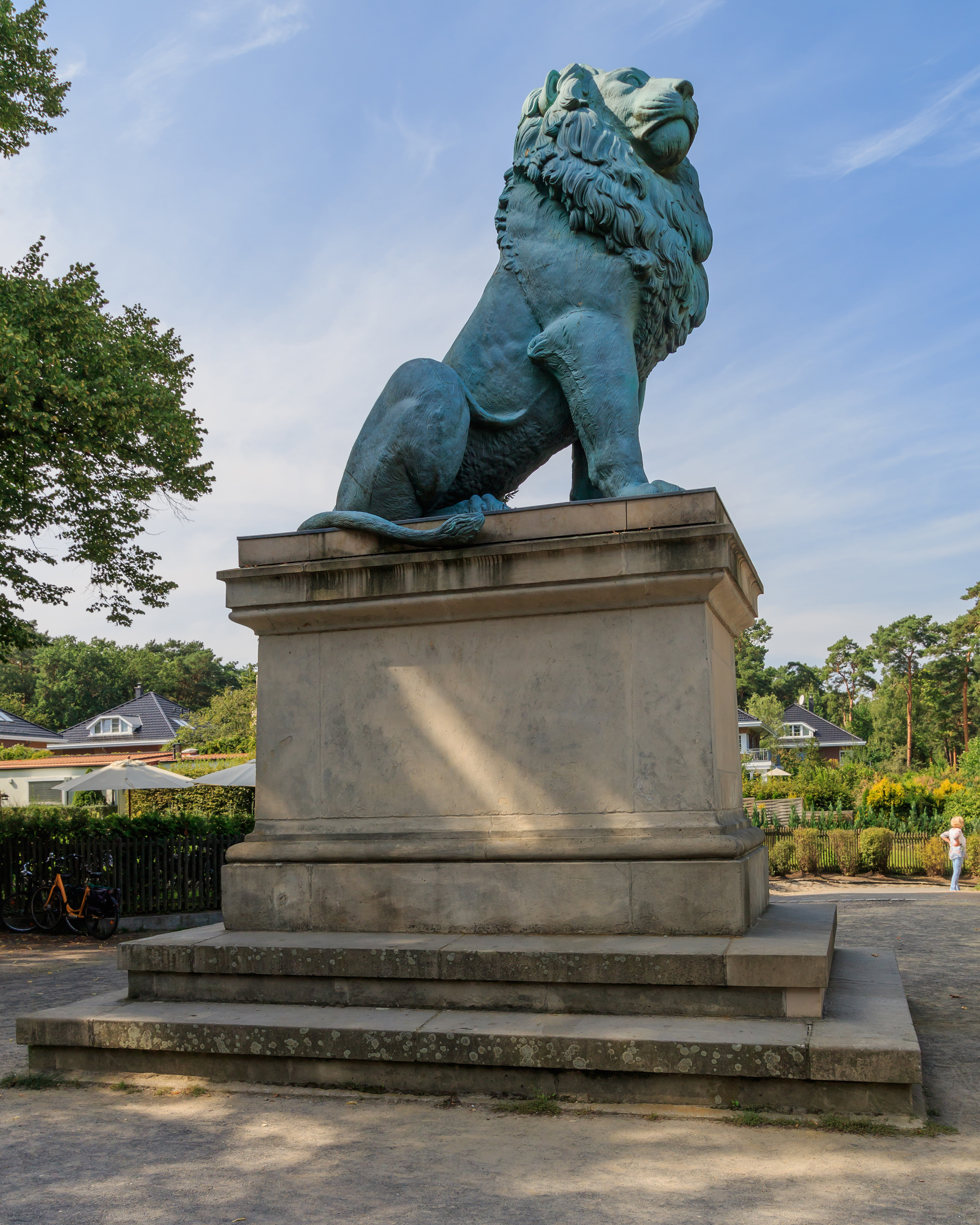 Statue of lion at Lake Wannsee in Berlin (Germany)